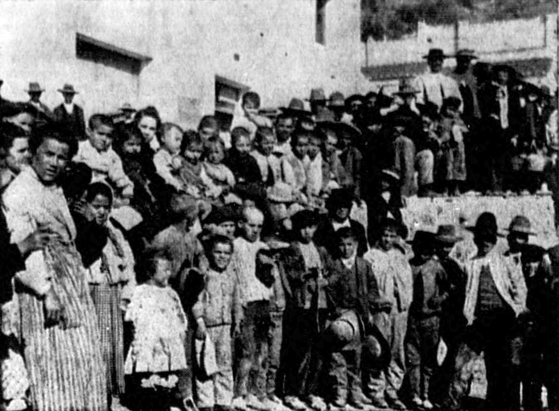 Spanish children disembarking from the SS Heliopolis in Honolulu, Hawaii - "Immigrants arrive after many weary weeks at sea". The Hawaiian Gazette (Honolulu, Hawaii). April 30, 1907. p. 3.